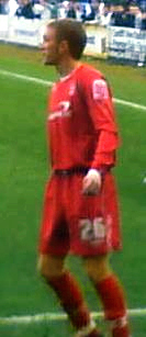 Matt Thornhill playing at Ninian Park